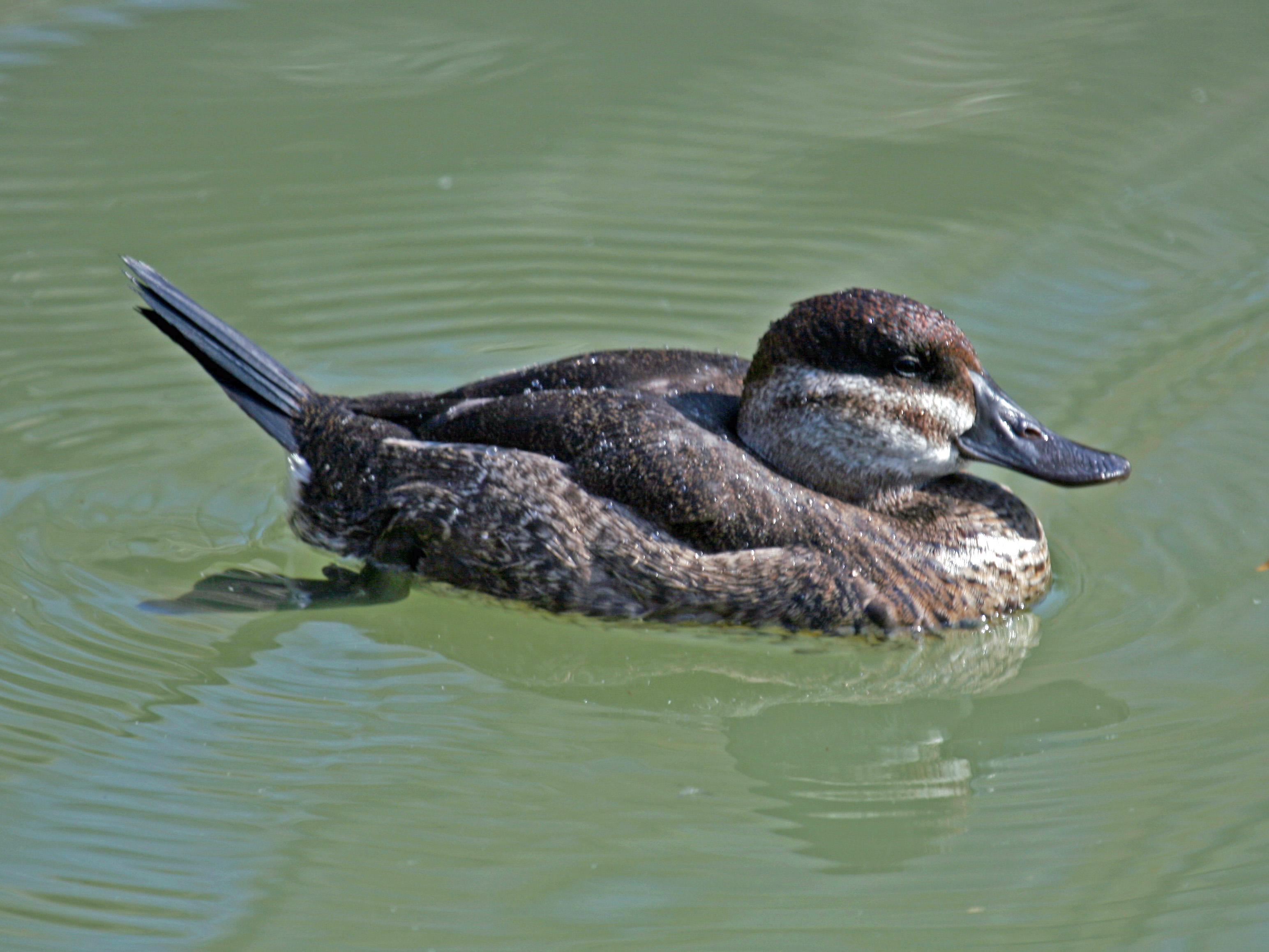 ♀ Ruddy Duck (Oxyura jamaicensis) at Sylvan Heights Waterfowl Park in Scotland Neck, North Carolina.